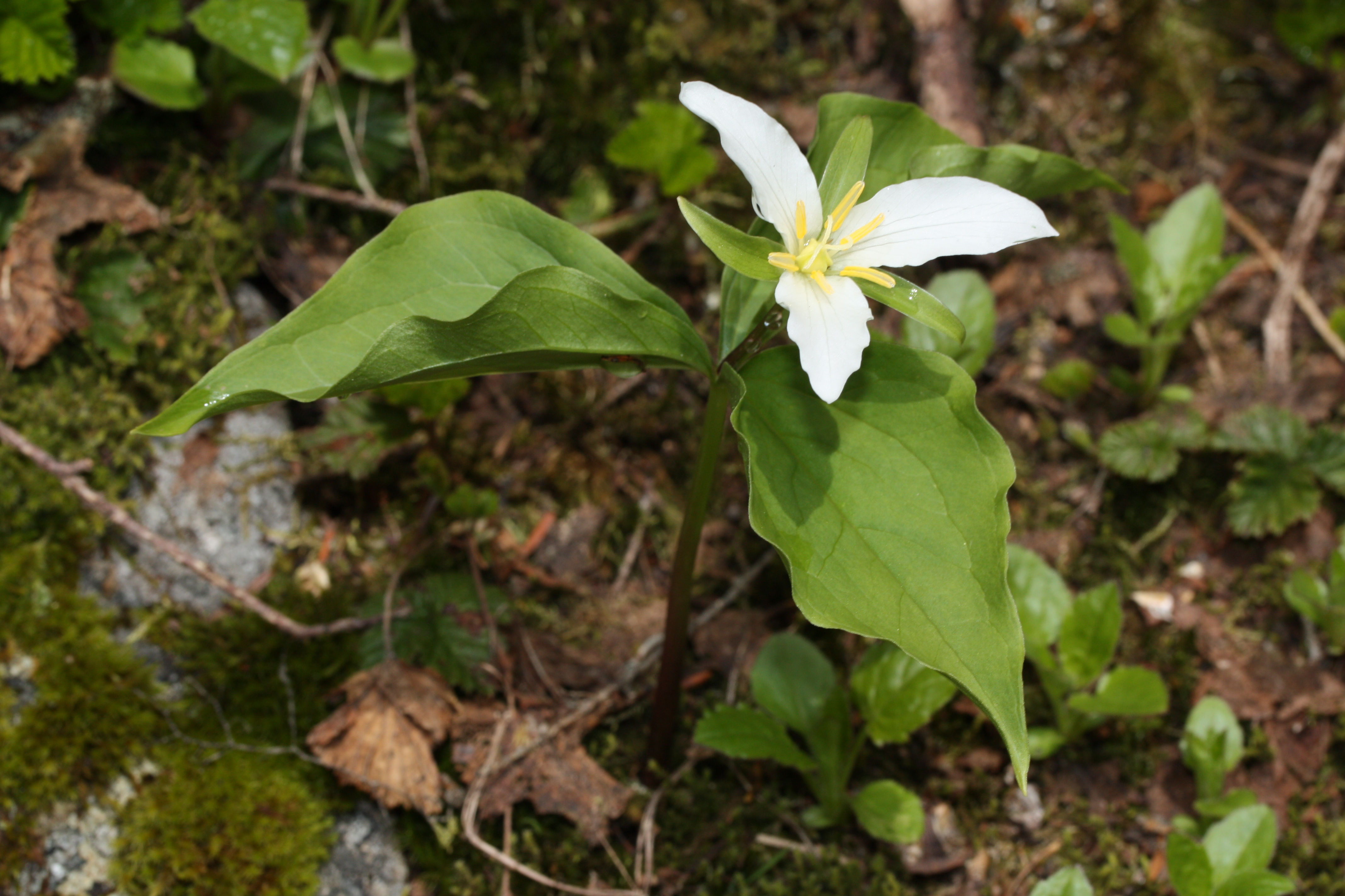 Pacific Trillium, Wakerobin